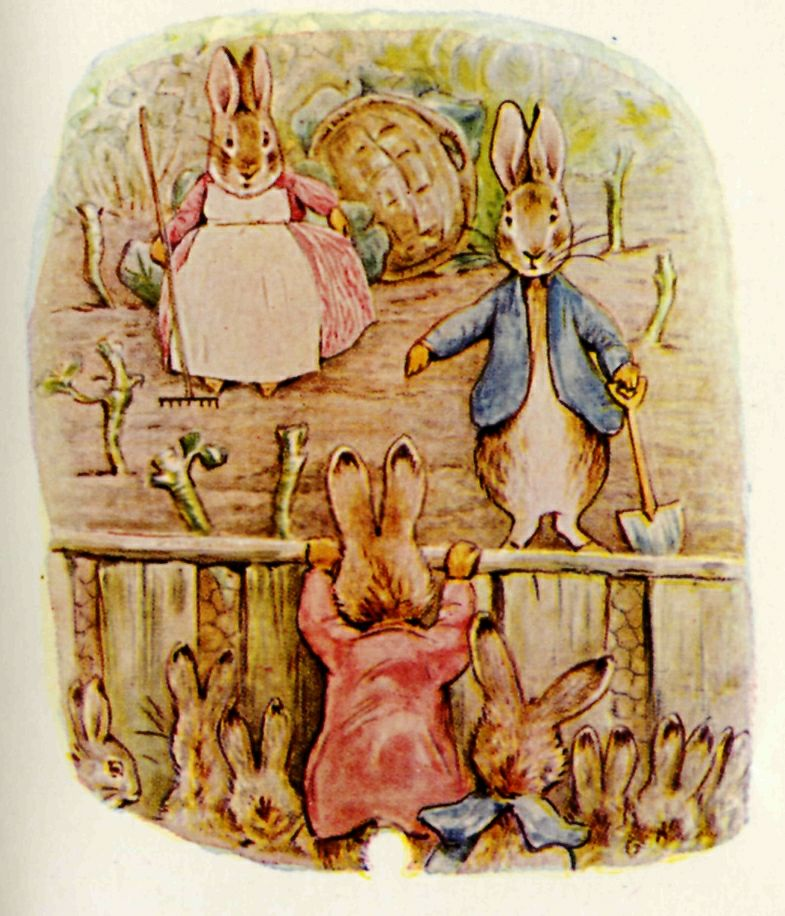 Peter Rabbit + Benjamin and Flopsy Bunny - Beatrix Potter characters